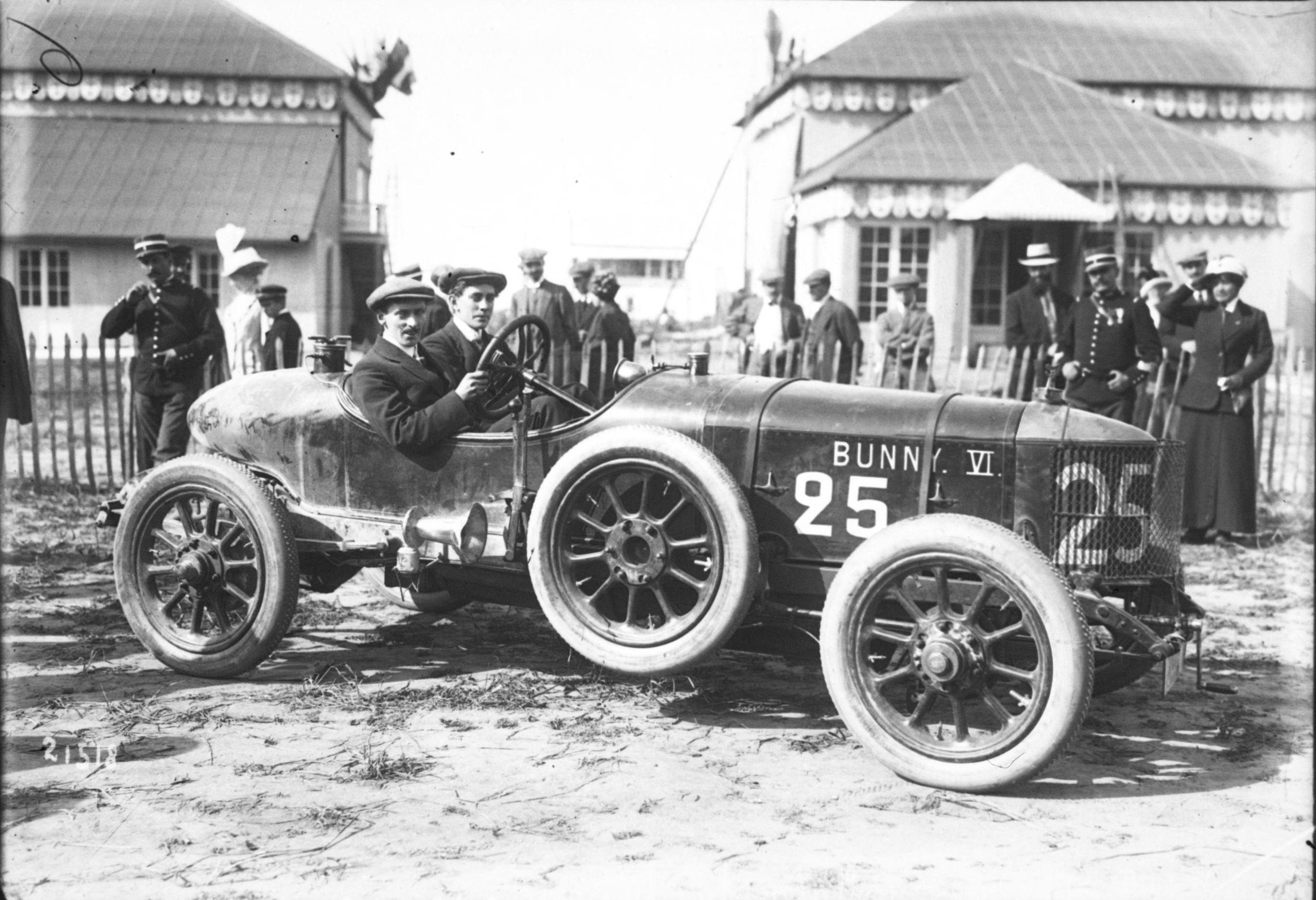 Frank Rollason in his Singer at the 1912 French Grand Prix at Dieppe.